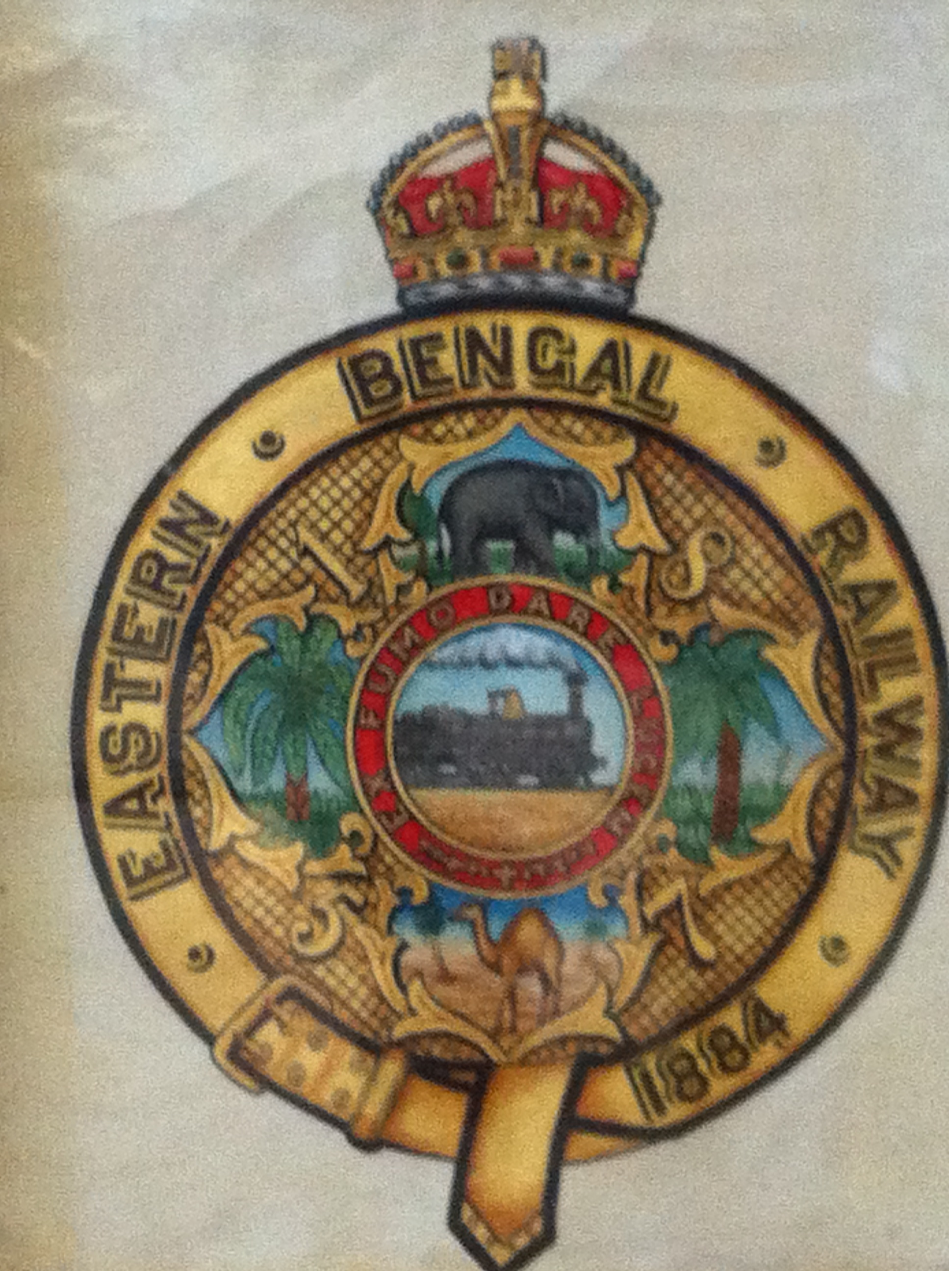 Logo of the Eastern Bengal Railway